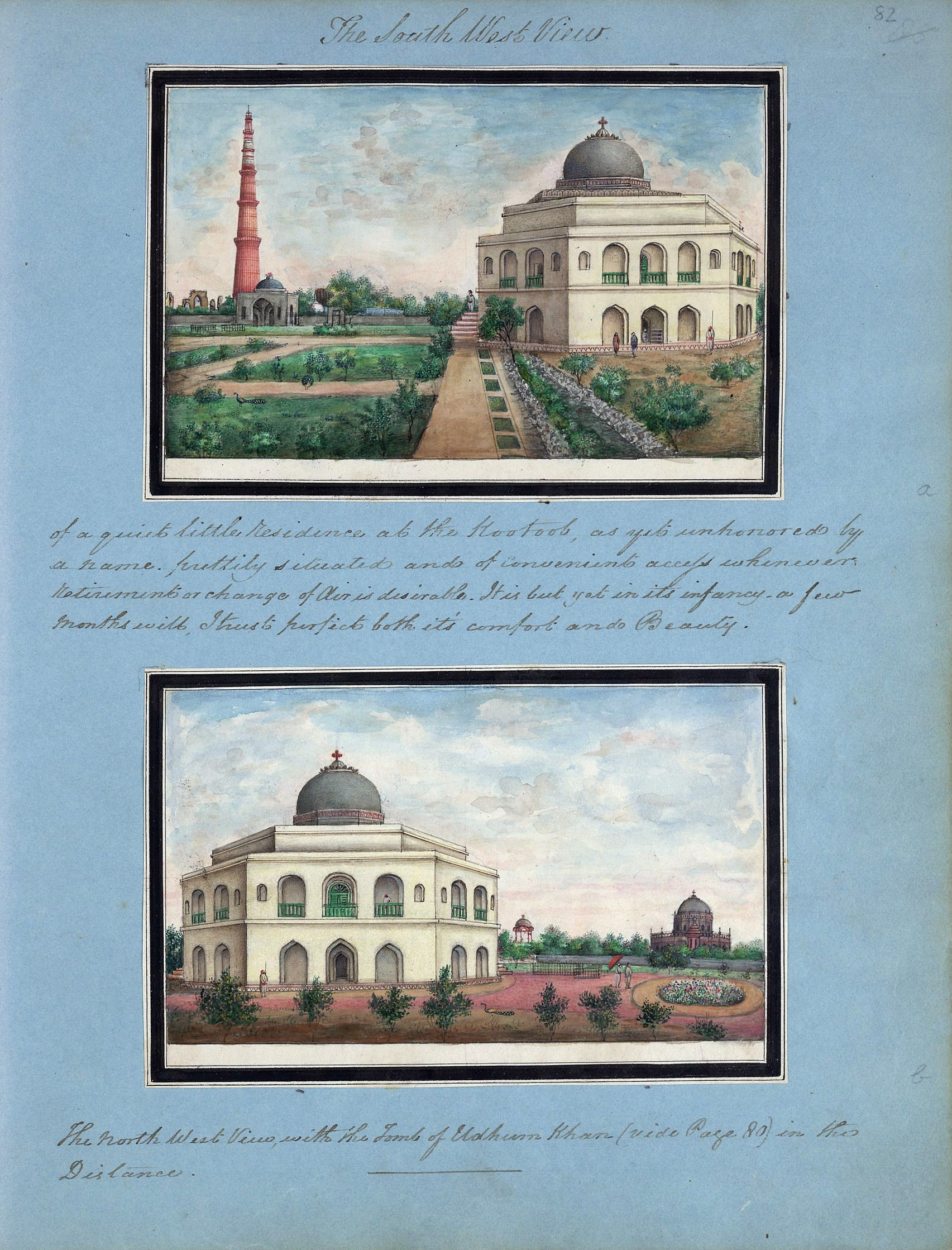 The tomb of Mohammad Quli Khan, brother of Adham Khan, Metcalfe album, 1843. The tomb of Mohammad Quli Khan, brother of Adham Khan, converted to a residence by Sir Thomas Theophilus Metcalfe, viewed from the south-west with the Qutb Minar beyond. This was Metcalfe's country house named 'Dilkusha' (Delight of the Heart). He left the lower part of the tomb as it was, but built around it. Metcalfe used to lend it out to bridal parties for their honeymoons.